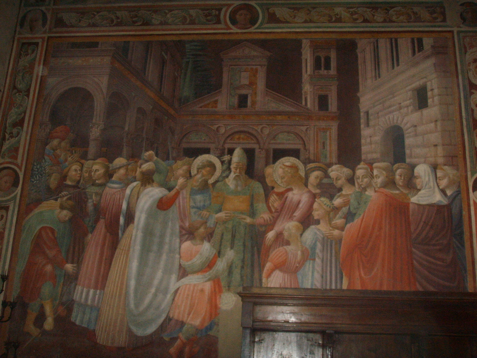 Duomo, Cappella by Paolo Uccello, first to right from the central one, frescos by Paolo Uccello, Prato, Italy